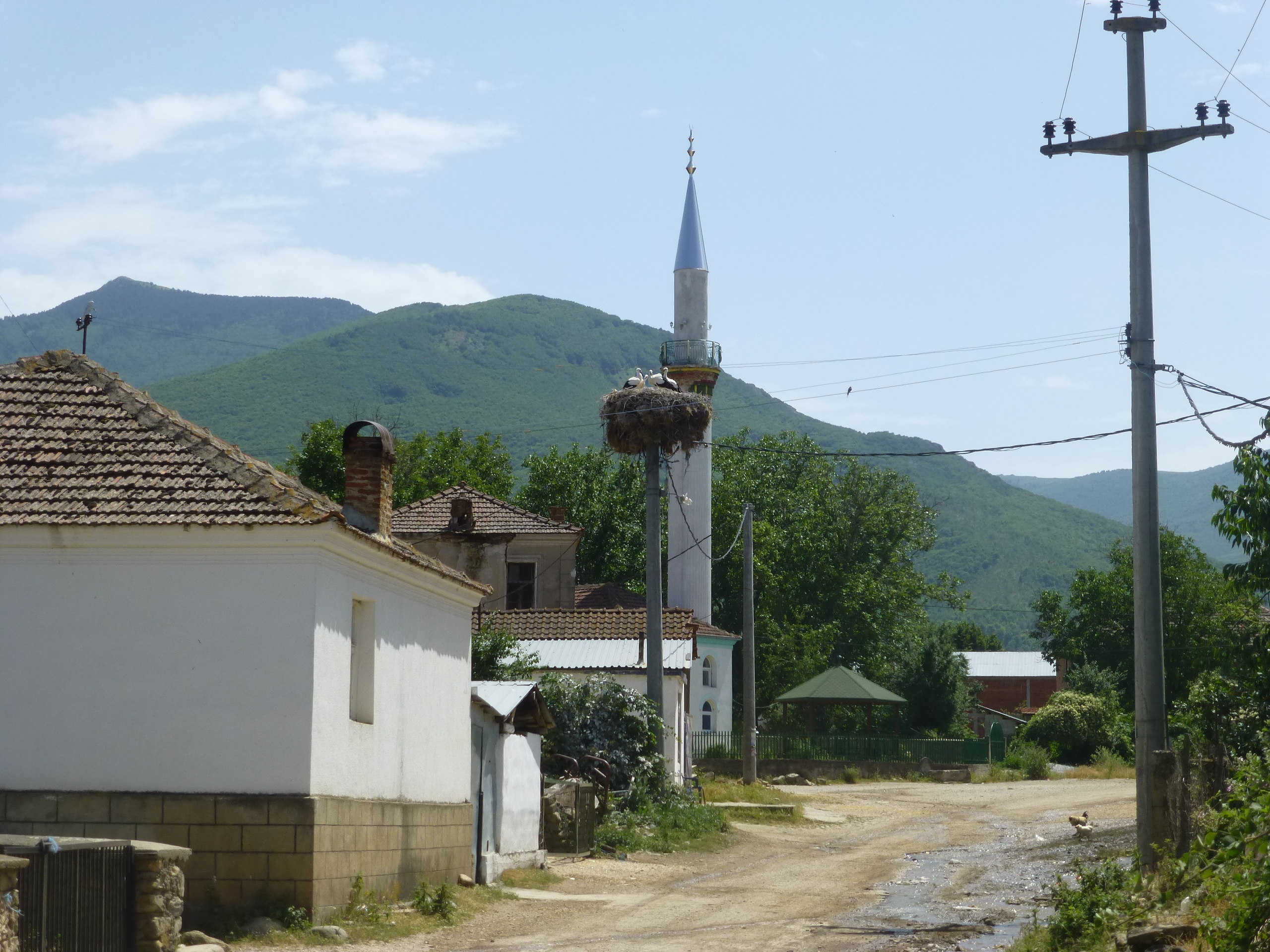 Around Dolenci Village (Bitola Municipality).